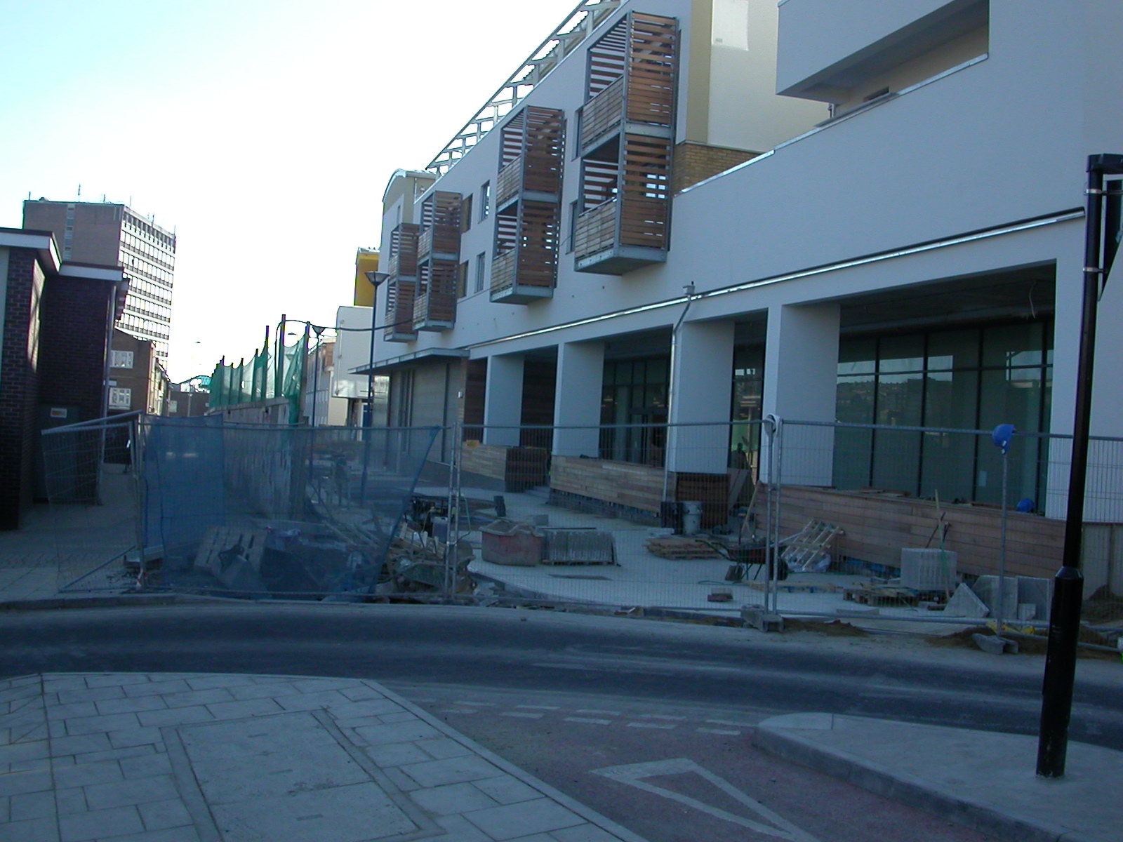 The redeveloped New England Street, in the New England Quarter in Brighton.